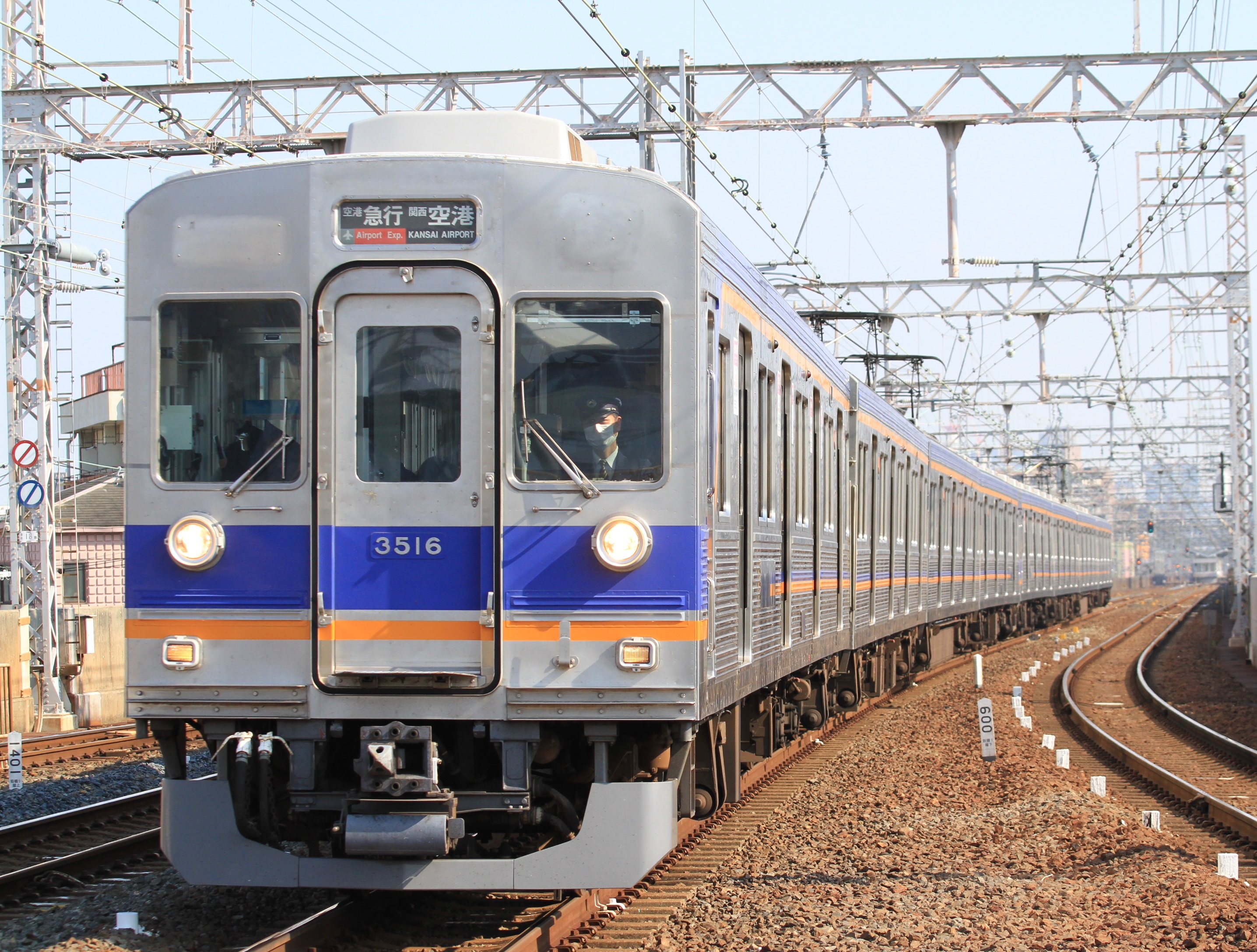 Nankai Electric Railway 3000 series EMU set 3516